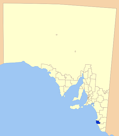 Map of LGAs, showing DC of Robe's Position. A Modification of user Astrokey44 original LGA map found at